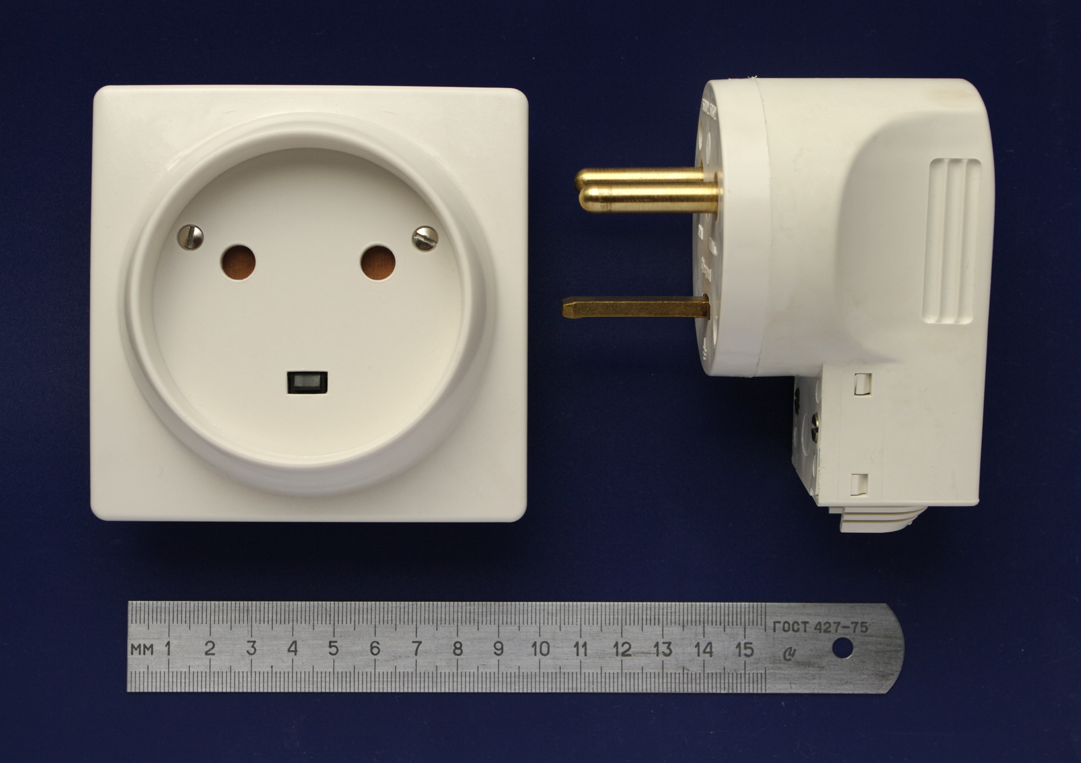 Power connector Legrand (400 V, 32 A)